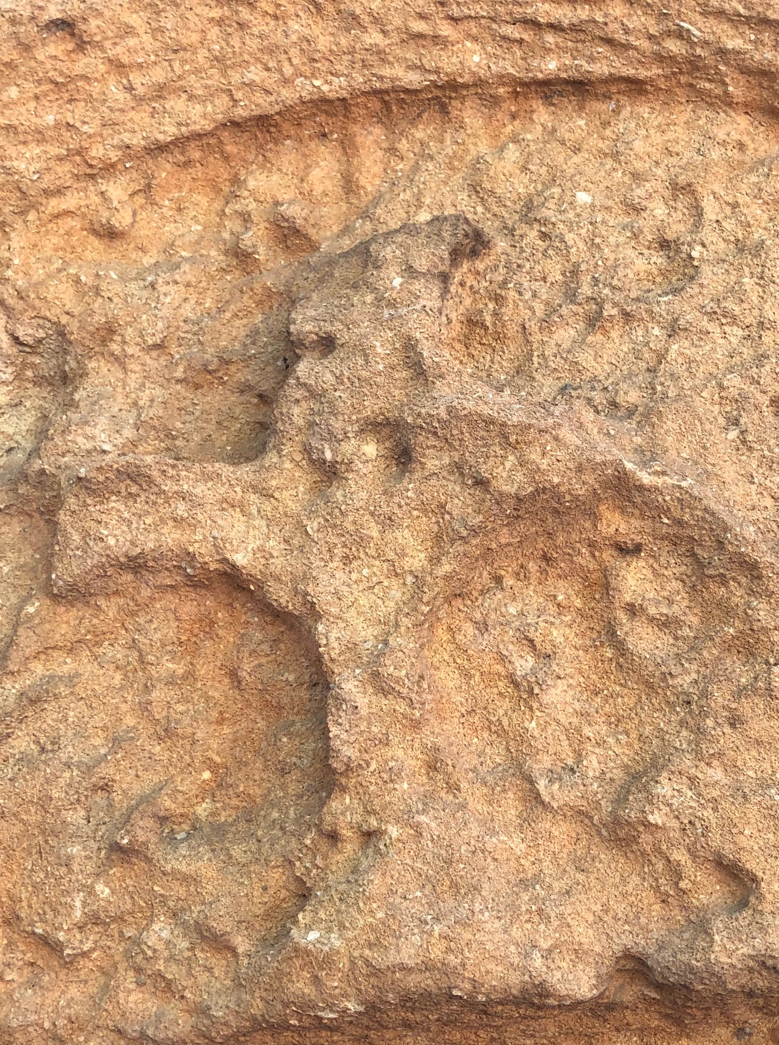 Cross on the Church of Templar in Metz